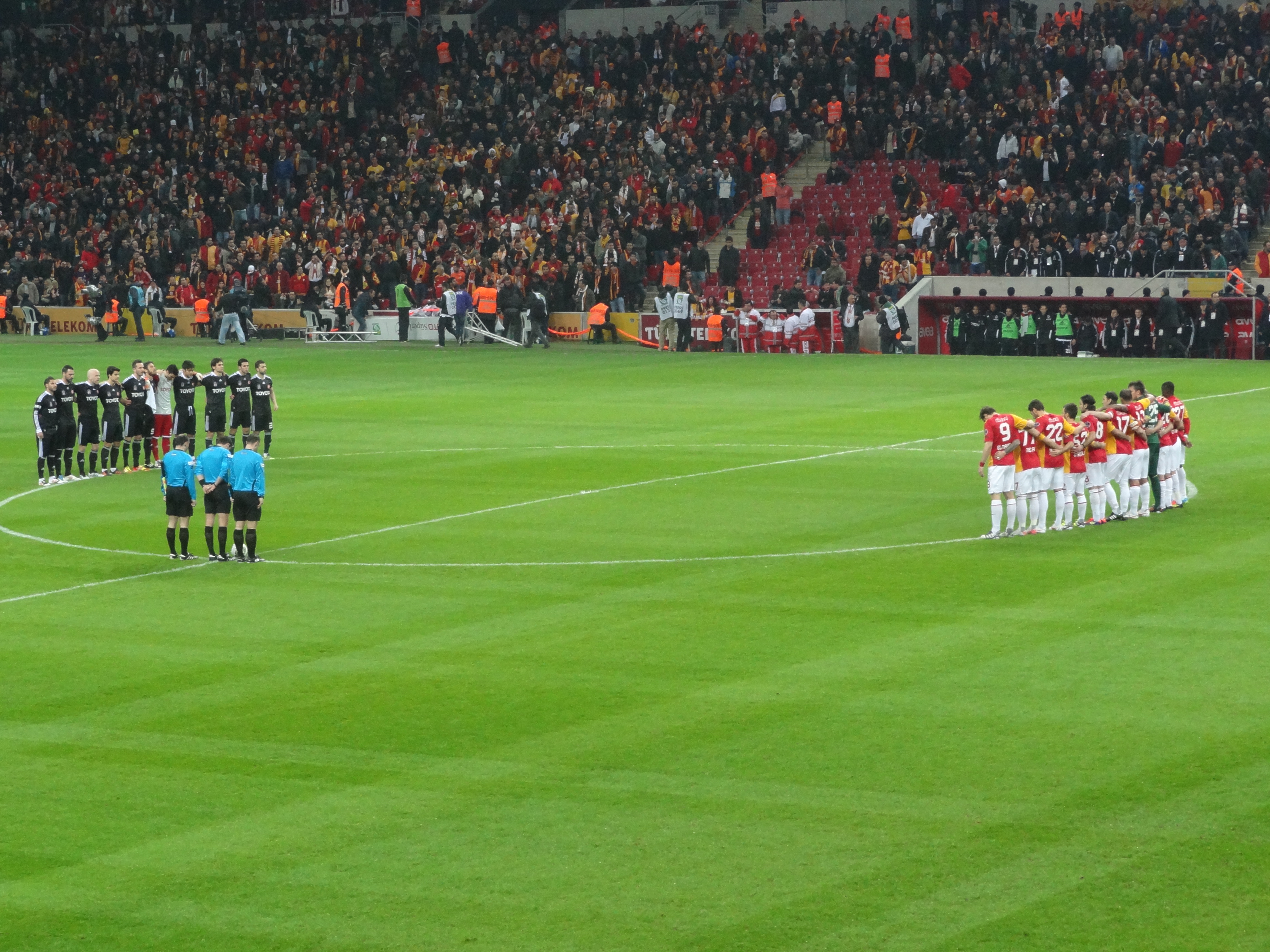 Galatasaray 3 - BJK 1